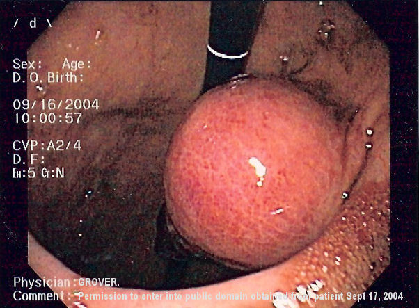 Endoscopy image of GI stromal tumour